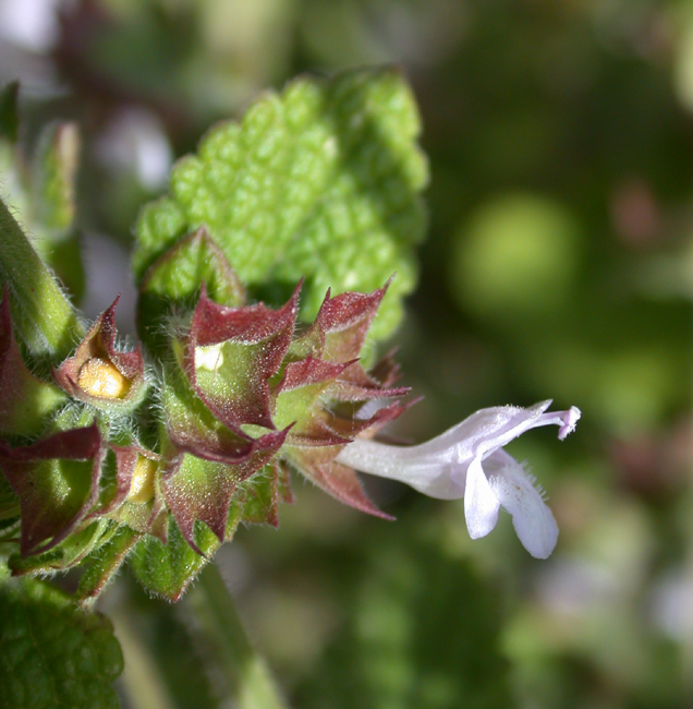 Melissa officinalis L. (מליסה רפואית), Mount Carmel, Israel, May 2006.